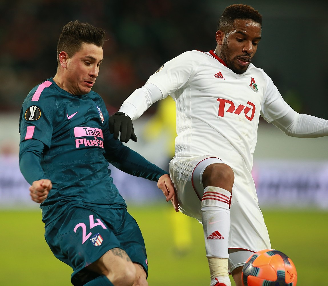 Jefferson Farfán, José María Giménez